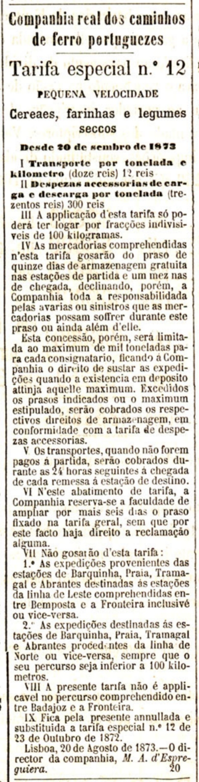 Advertisement of the Companhia Real dos Caminhos de Ferro Portugueses (Royal Company of the Portuguese Railways), showing the special tariff n.º 12, for the transport of cereals, flours and dried legumes. This image was published on the Diario Illustrado newspaper No. 410, of 23rd September 1873, and scanned by the Biblioteca Nacional de Portugal.